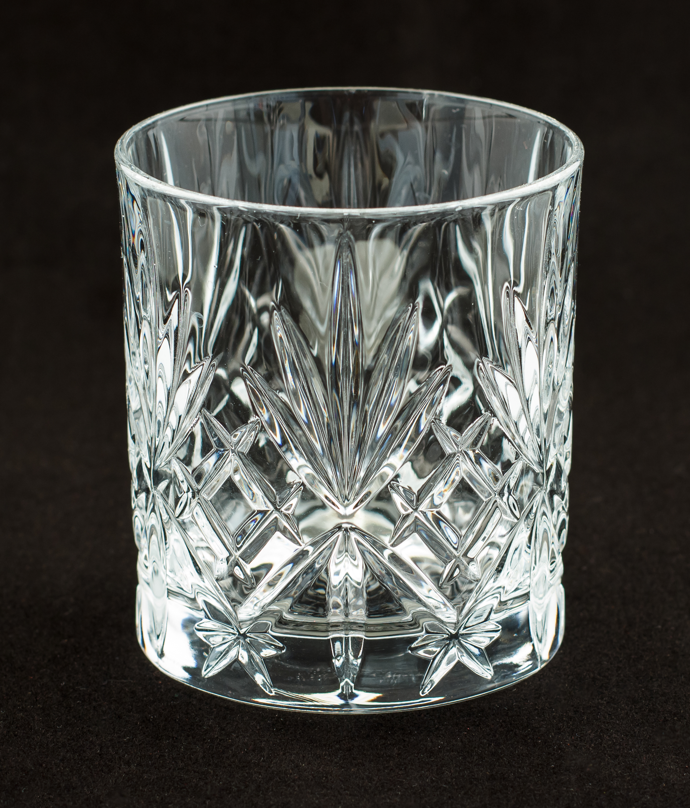 A typical old fashioned glass, also called a rocks glass.